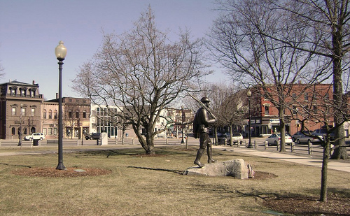 View of the Green, Taunton, Massachusetts